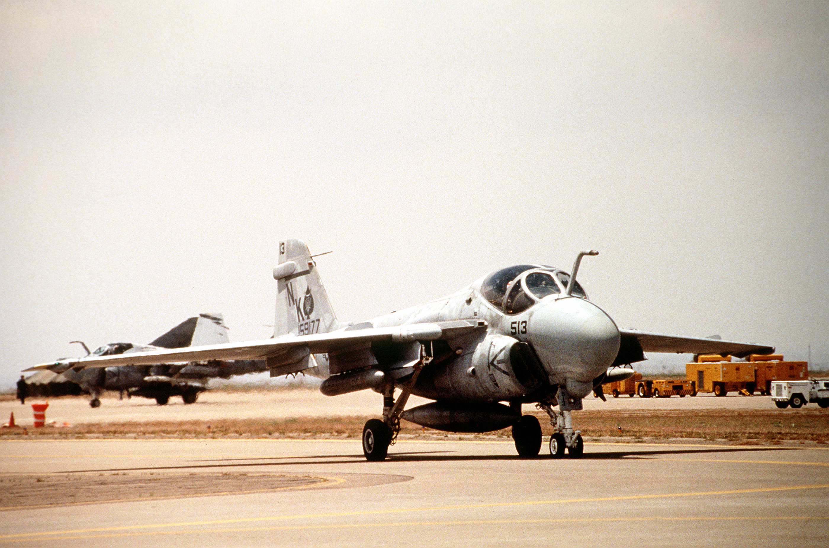 A U.S. Navy Grumman A-6E Intruder (BuNo 159177) from Attack Squadron 196 (VA-196) Main Battery, Naval Air Station Whidbey Island, Wash., taxis down the ramp to the arming area at Roswell Industrial Air Center prior to take off for another mission during the annual air defense exercise "Roving Sands '95" on 4 May 1995.